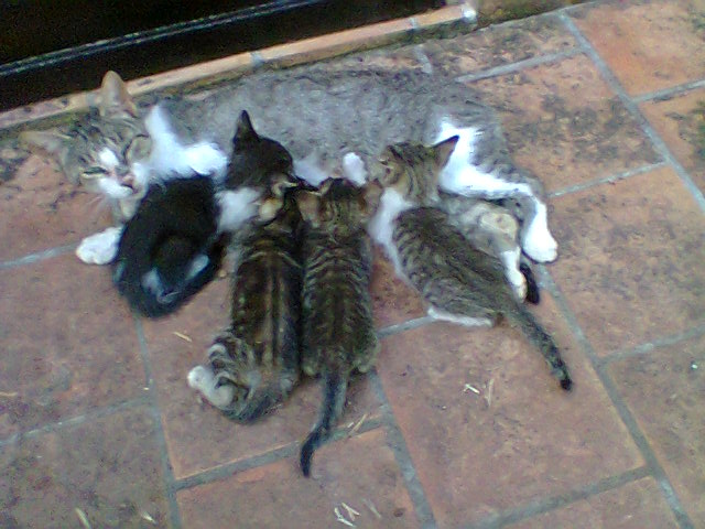 Domestic cat mammal behavior (Felis catus).